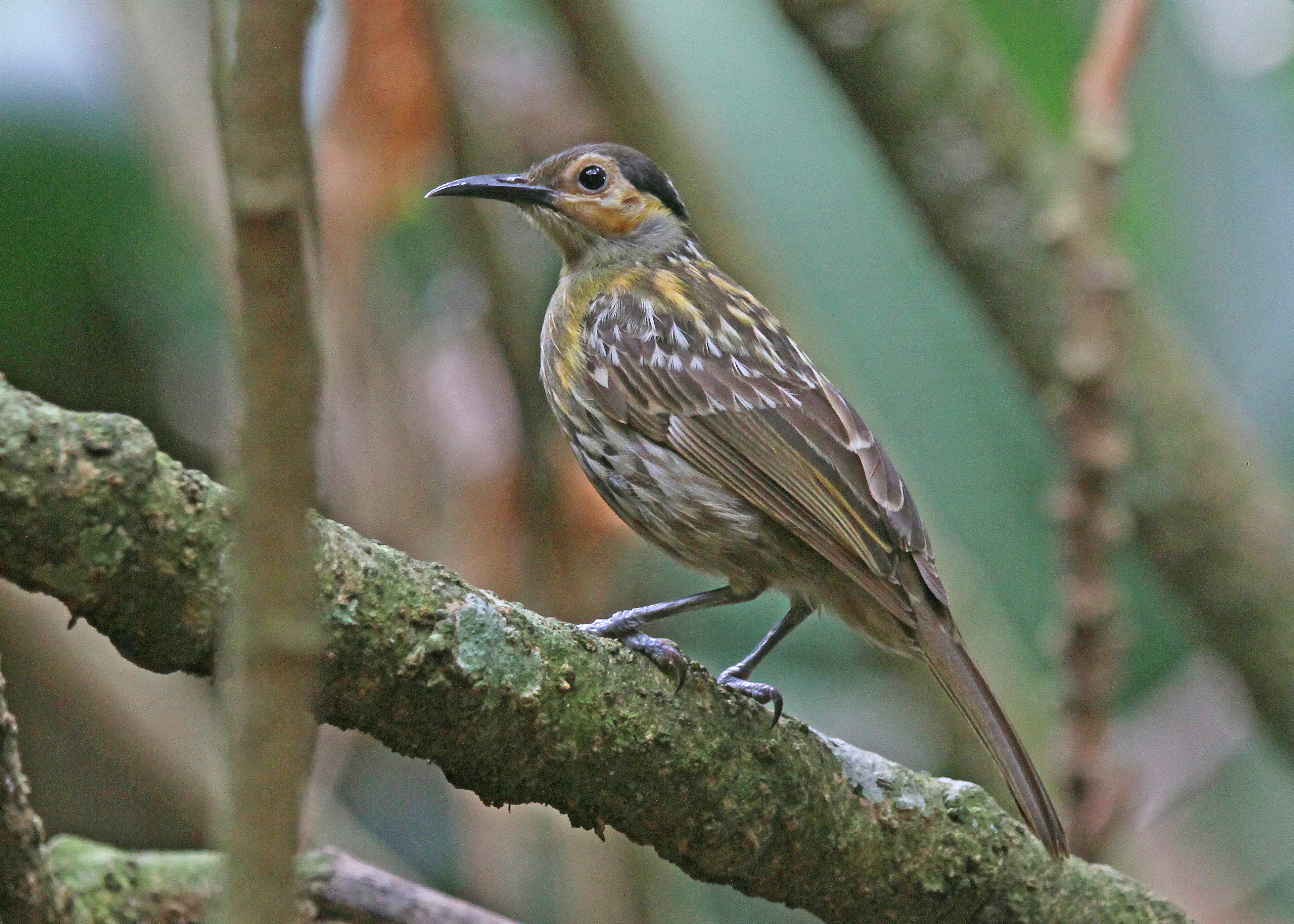 photo of Macleay's Honeyeater